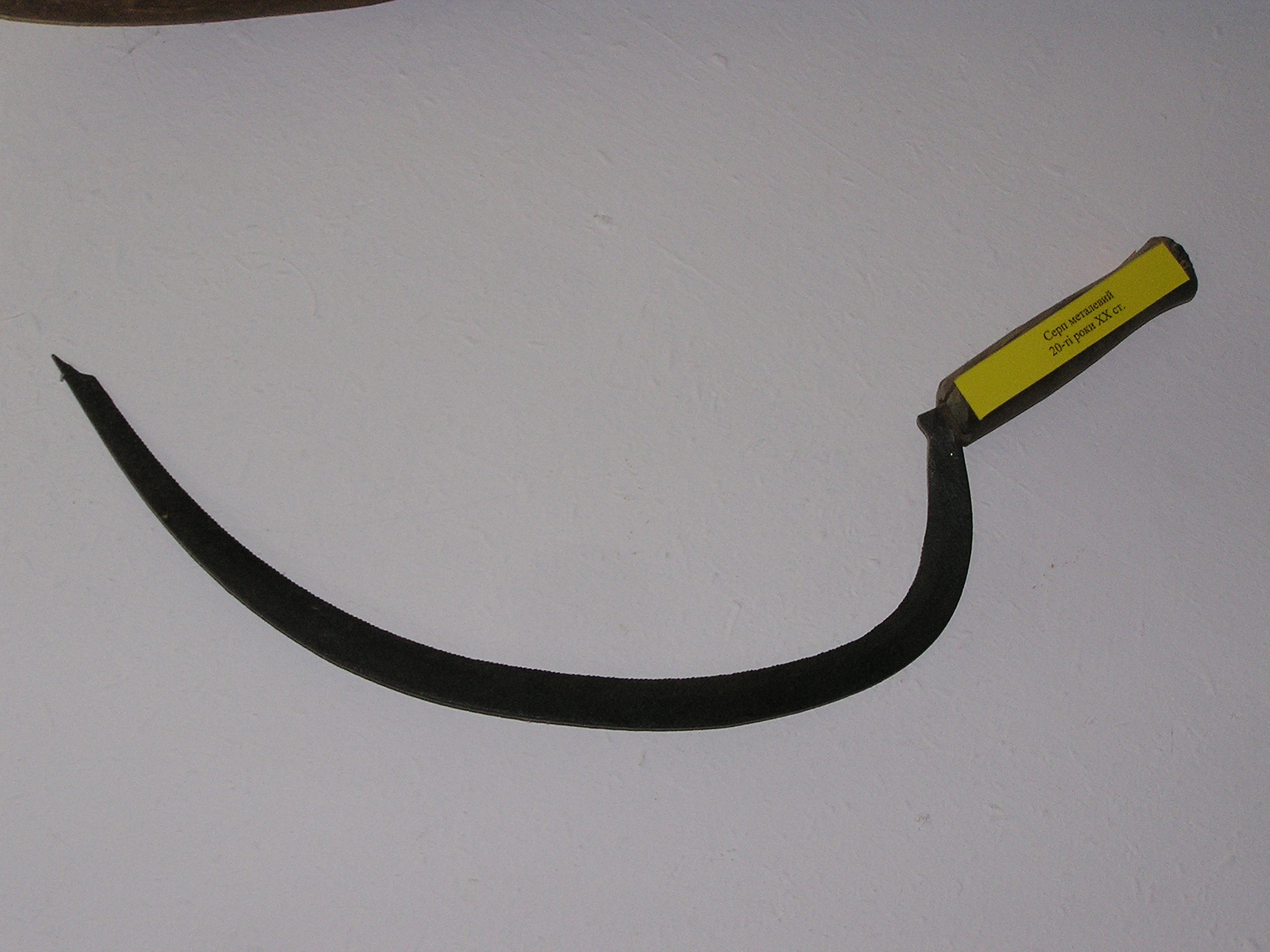 History museum of Truskavets History Museum of Truskavets Native nameМузей истории г. ТрускавецLocationTruskavetsCoordinates49° 16′ 39.5″ N, 23° 30′ 23.96″ E Established29 December 1982 Authority control : Q12130489 institution QS:P195,Q12130489